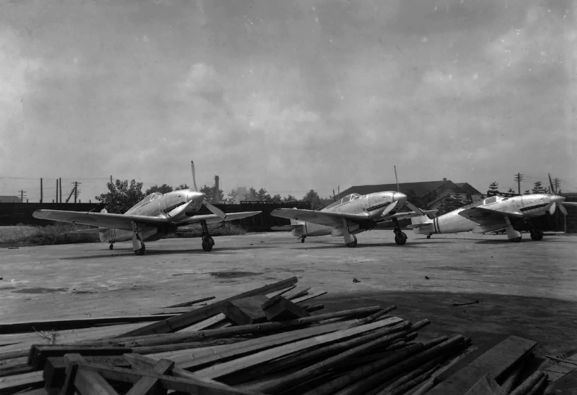 3 prototypes of the Ki-60. From left to Right the 3th, 1st and 2nd prototype.